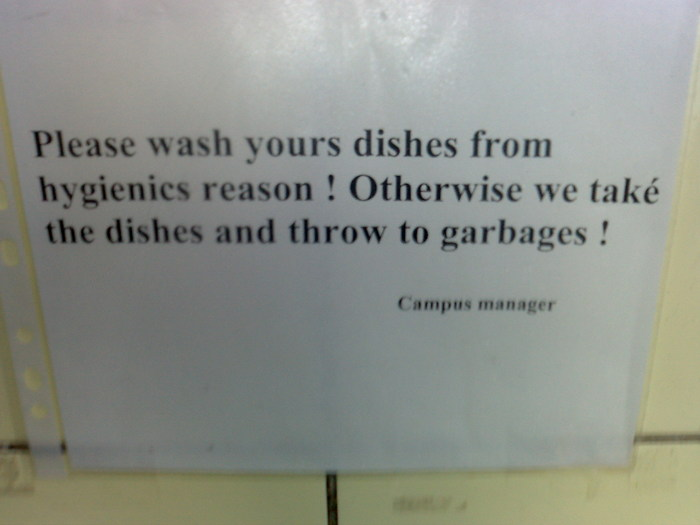 This is a photo that I took in a kitchen at my campus of the Charles University in Prague, Czech Republic.